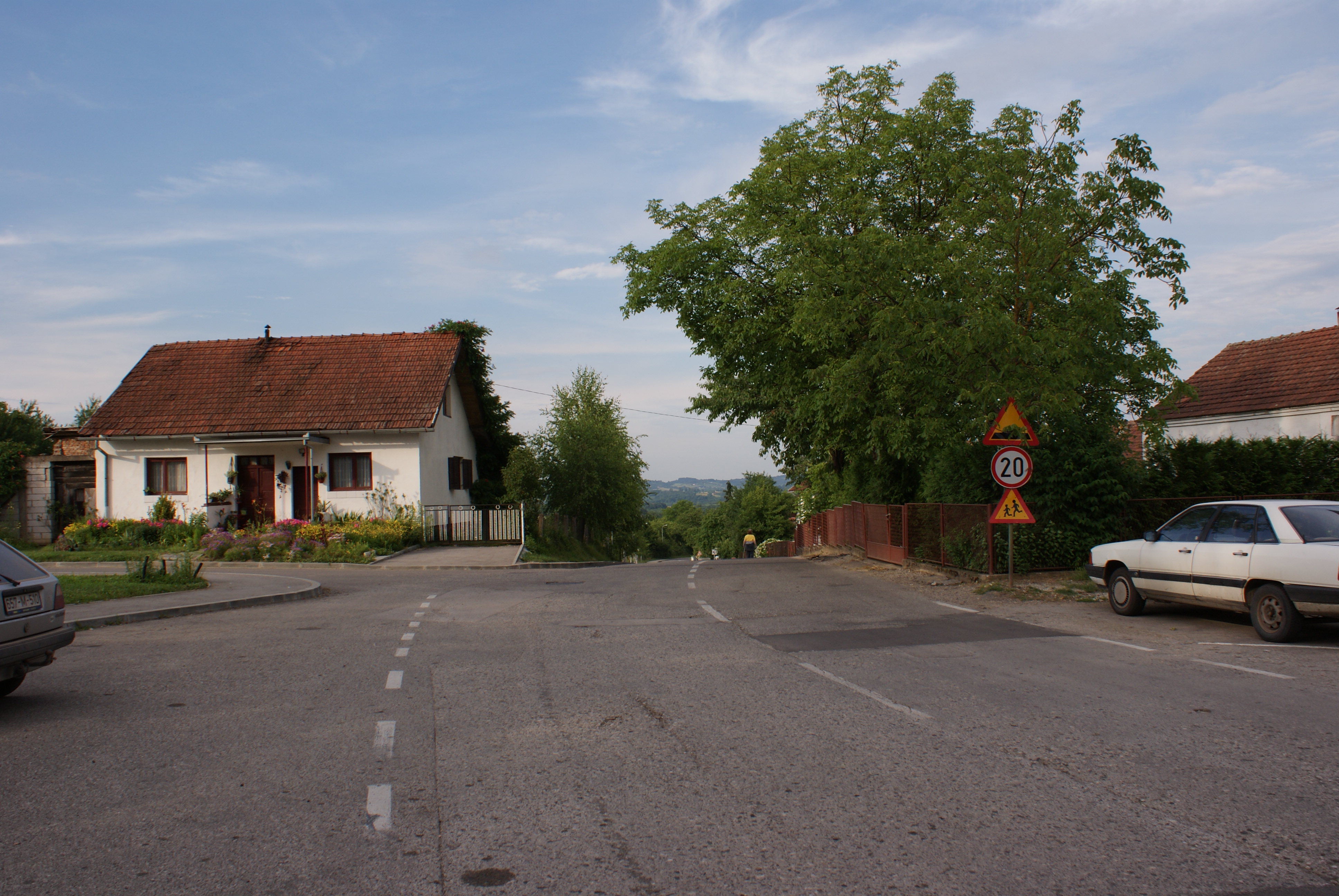 A visit to Slatina Spa